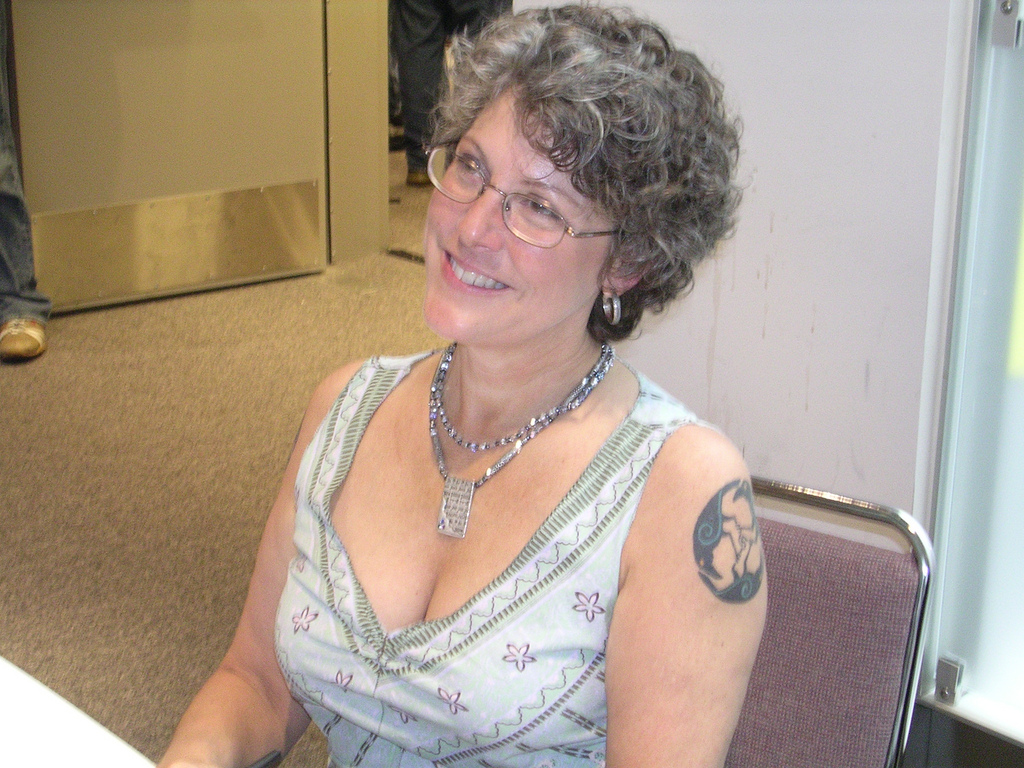 Brenda Laurel at SXSW in 2004.